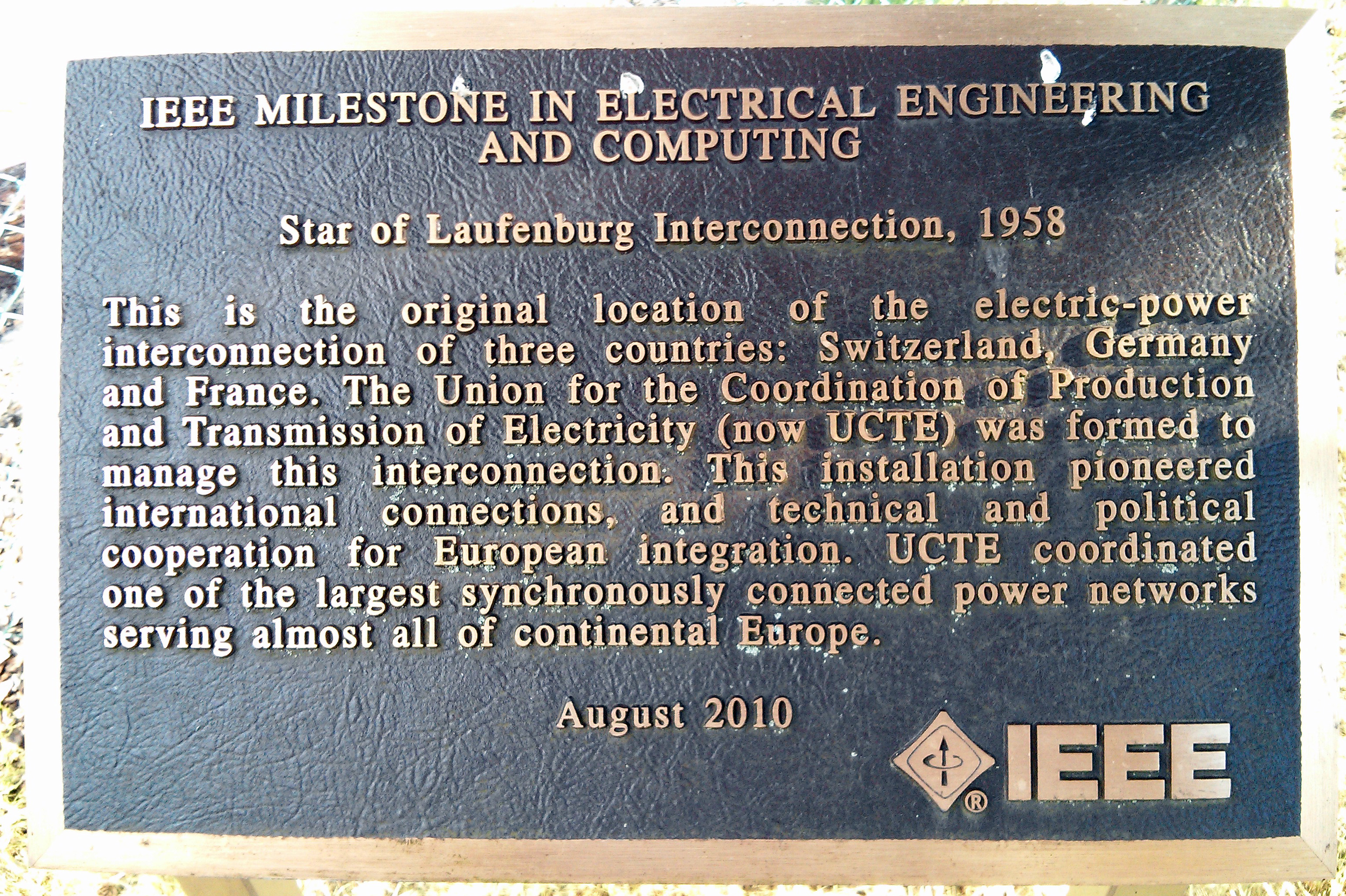 IEEE Milestone plaque at Laufenburg substation (Swissgrid), Switzerland – referring to the inception of the Synchronous grid of Continental Europe. IEEE MILESTONE IN ELECTRICAL ENGINEERING AND COMPUTING Star of Laufenburg Interconnection, 1958 This is the original location of the electric-power interconnection of three countries: Switzerland, Germany and France. The Union for Production and Transmission of Electricity (now UCTE) was formed to manage this interconnection. This installation pioneered international connections, and technical and political cooperation for European integration. UCTE coordinated one of the largest synchronously connected power networks serving almost all of continental Europe. August 2010 IEEE